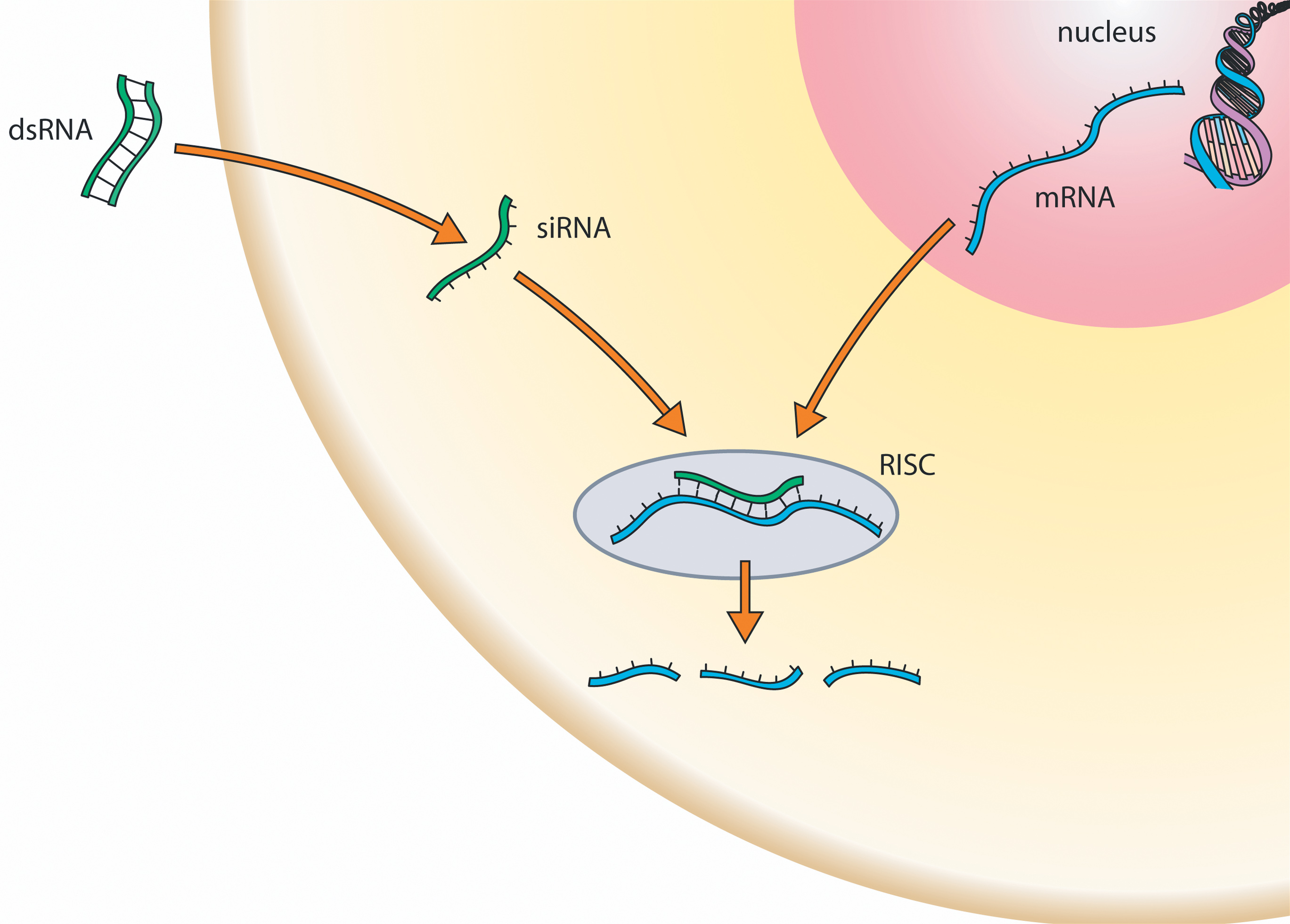 RNAi is a process in which small RNA molecules activate a cellular response able to destroy a specific mRNA